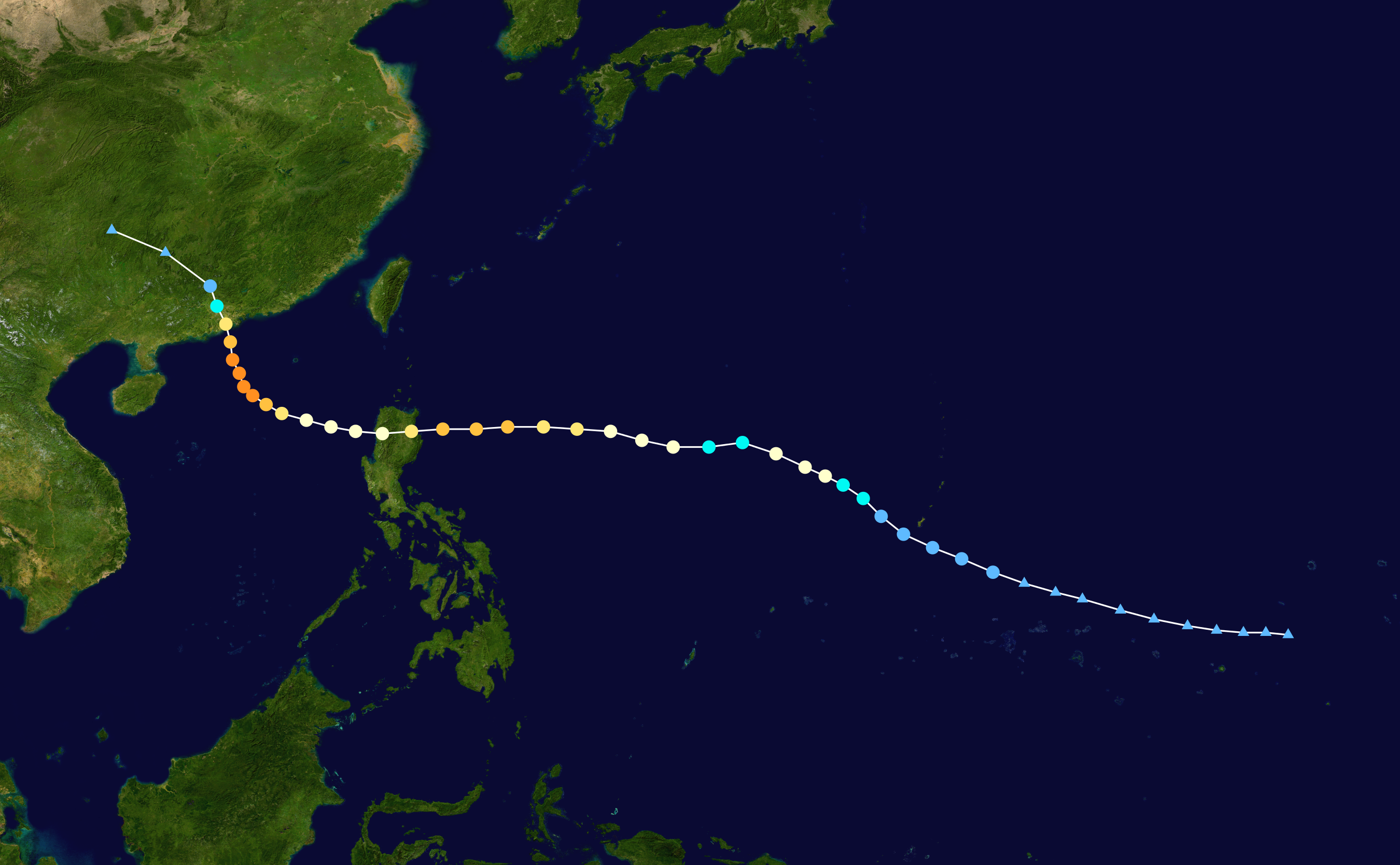 Track map of Typhoon Rose of the 1971 Pacific typhoon season. The points show the location of the storm at 6-hour intervals. The colour represents the storm's maximum sustained wind speeds as classified in the Saffir–Simpson hurricane wind scale (see below), and the shape of the data points represent the nature of the storm, according to the legend below. Saffir–Simpson hurricane wind scale Tropical depression≤38 mph≤62 km/h Category 3111–129 mph178–208 km/h Tropical storm39–73 mph63–118 km/h Category 4130–156 mph209–251 km/h Category 174–95 mph119–153 km/h Category 5≥157 mph≥252 km/h Category 296–110 mph154–177 km/h Unknown Storm typeTropical cycloneSubtropical cycloneExtratropical cyclone / Remnant low / Tropical disturbance